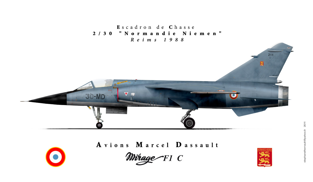 Mirage F1 C 2/30 normandie niemen squadron French Air Force